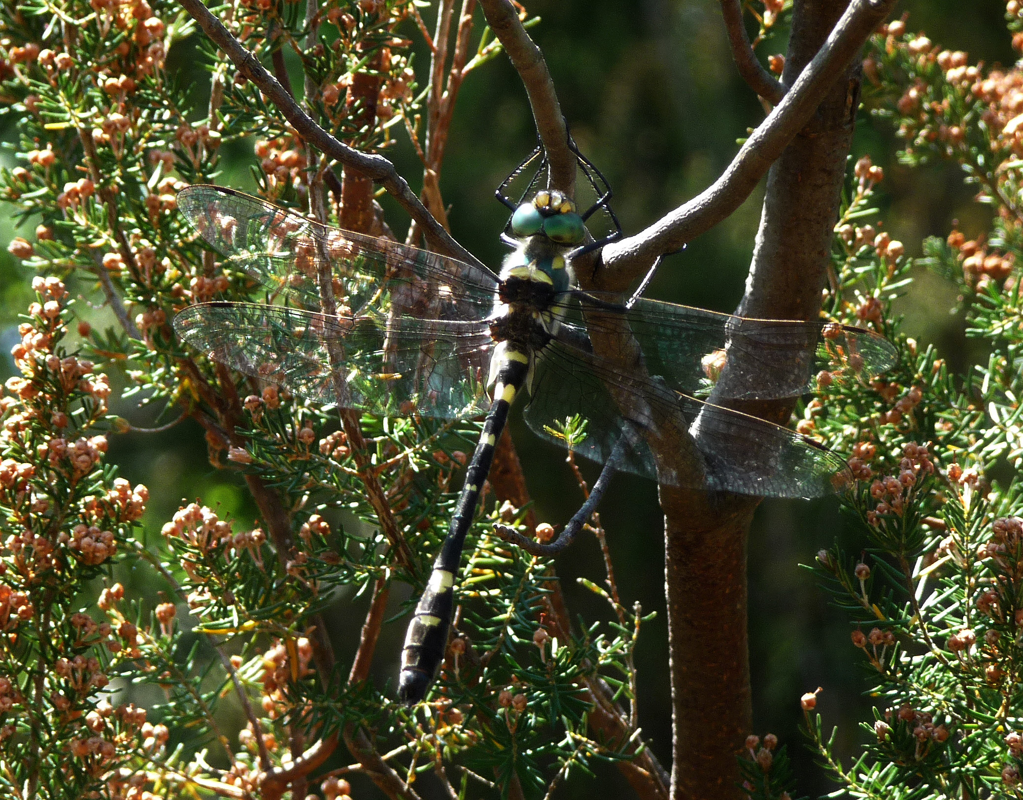 See note below for directions in Jimena